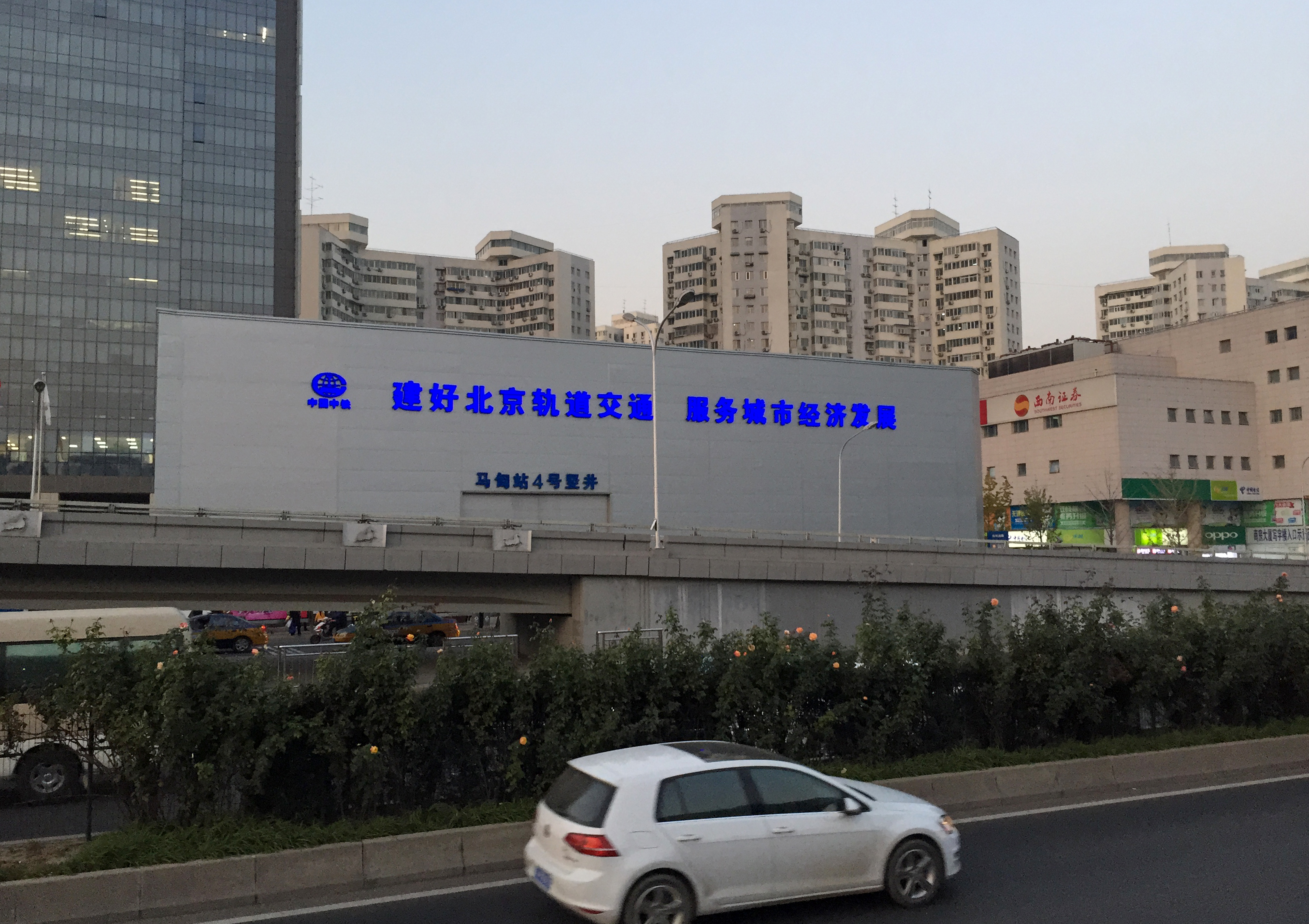 Stations of L12 on North 3rd Ring Rd all began their construction.